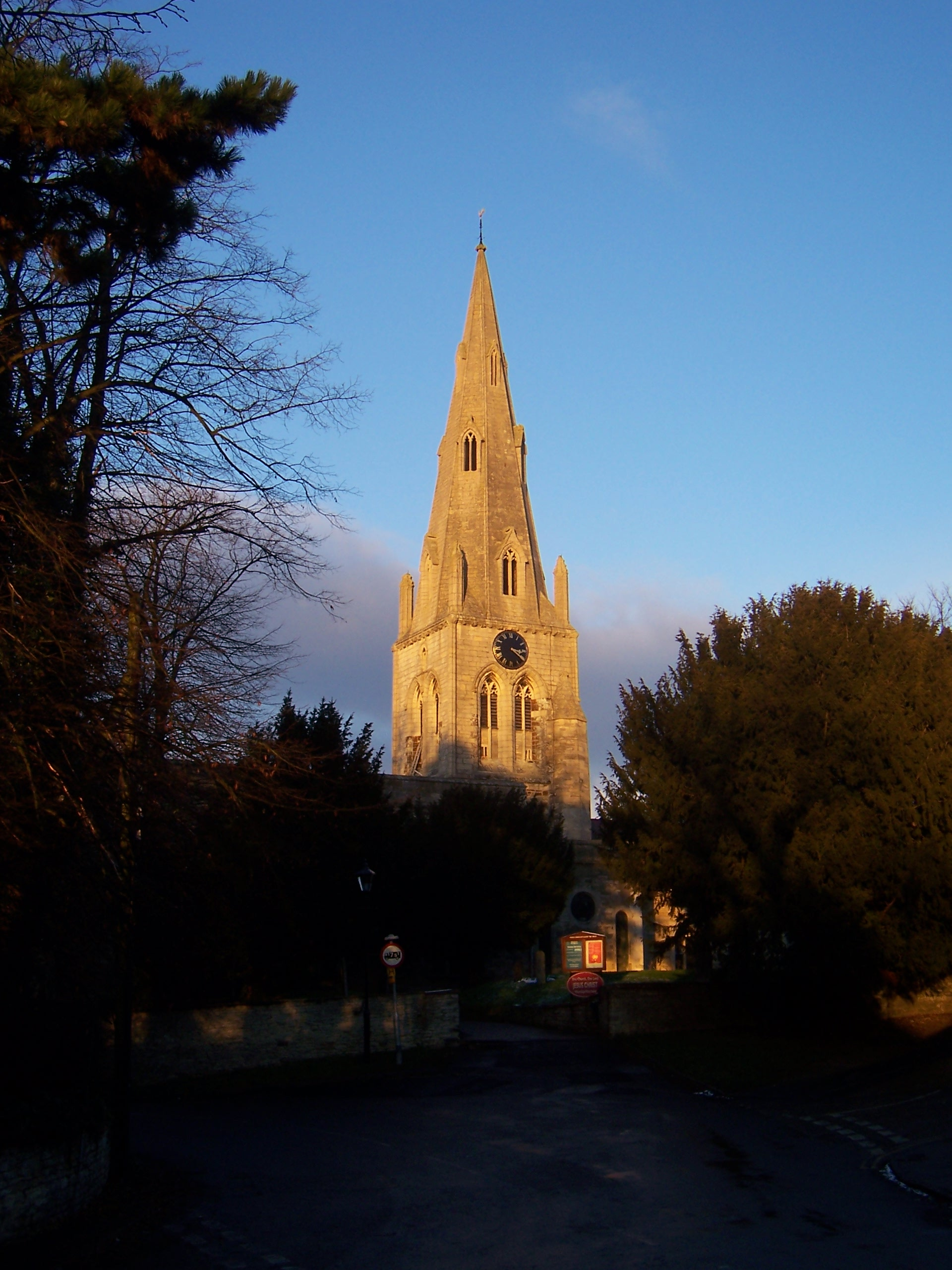 Central tower and broach spire of St Mary the Virgin parish church, Wollaston, Northamptonshire